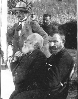 Akaki Tsereteli and Vasil Amashukeli